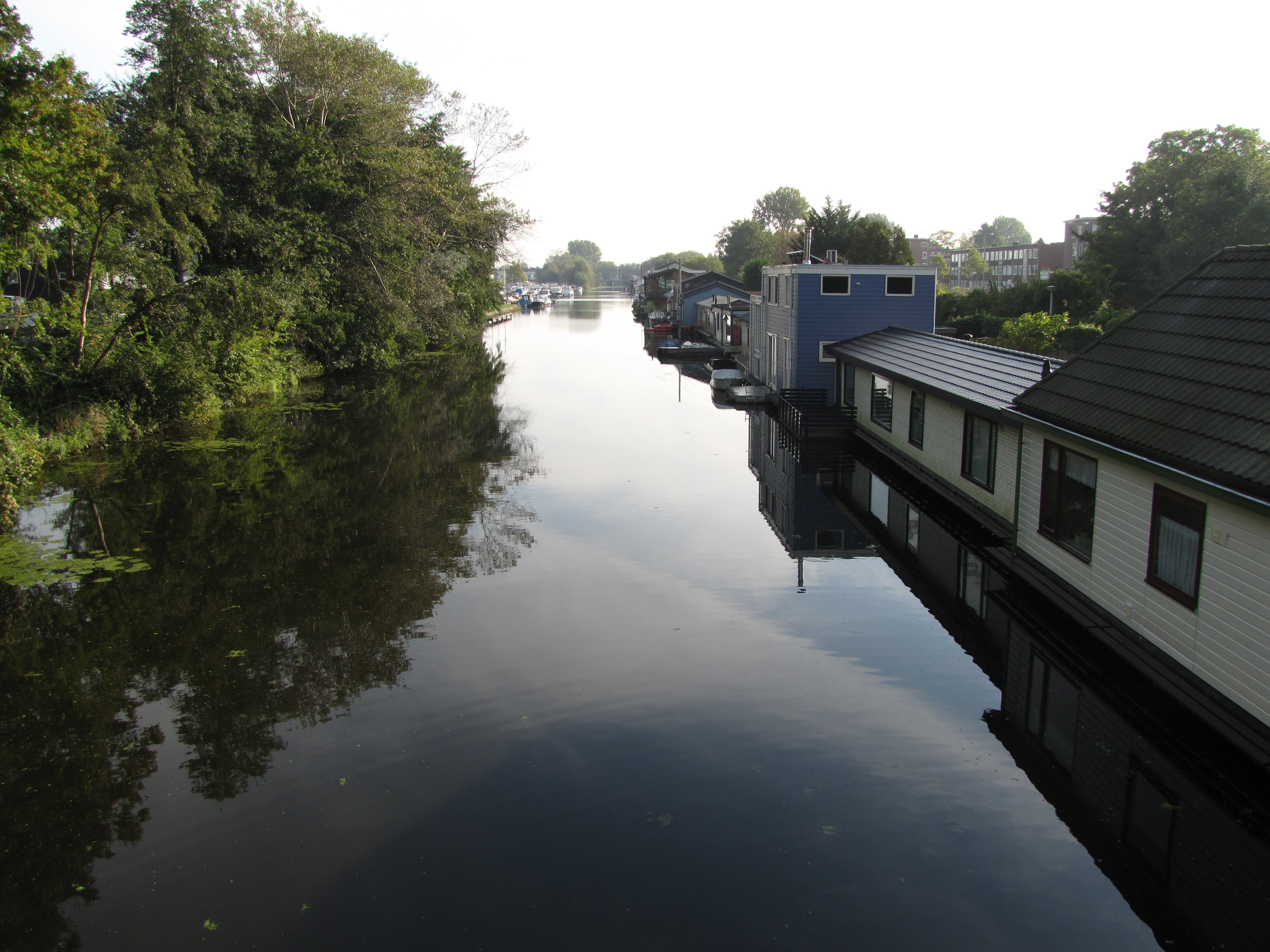 Noorderkanaal from the Vroesenkade bridge (Rotterdam noord).